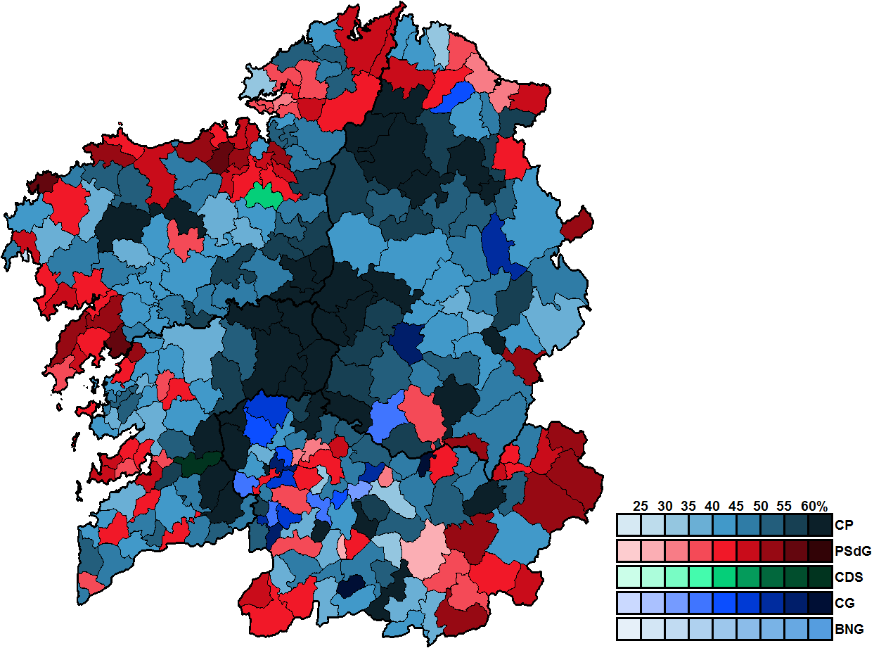 Most-voted party in Galicia municipalities, showing vote share obtained, in the Spanish general election, 1986.